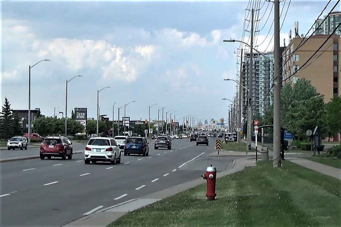 Eglinton Ave. near Winston Churchill Blvd.